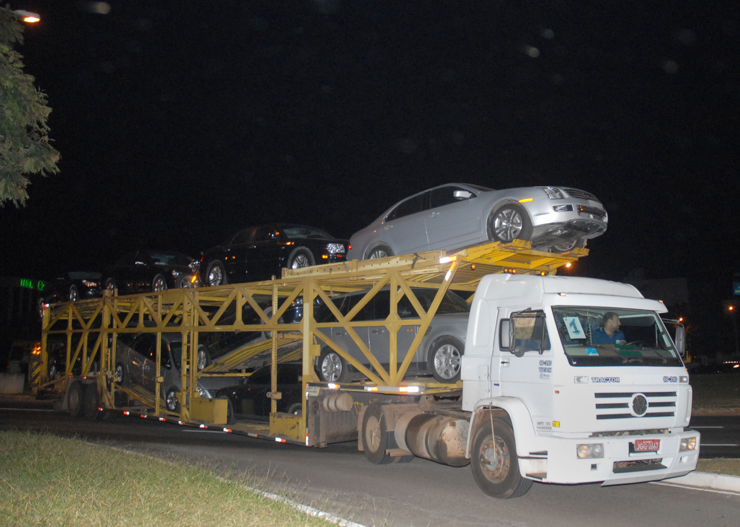 Volkswagen 18-310 Titan Tractor truck. Made in Brasil.